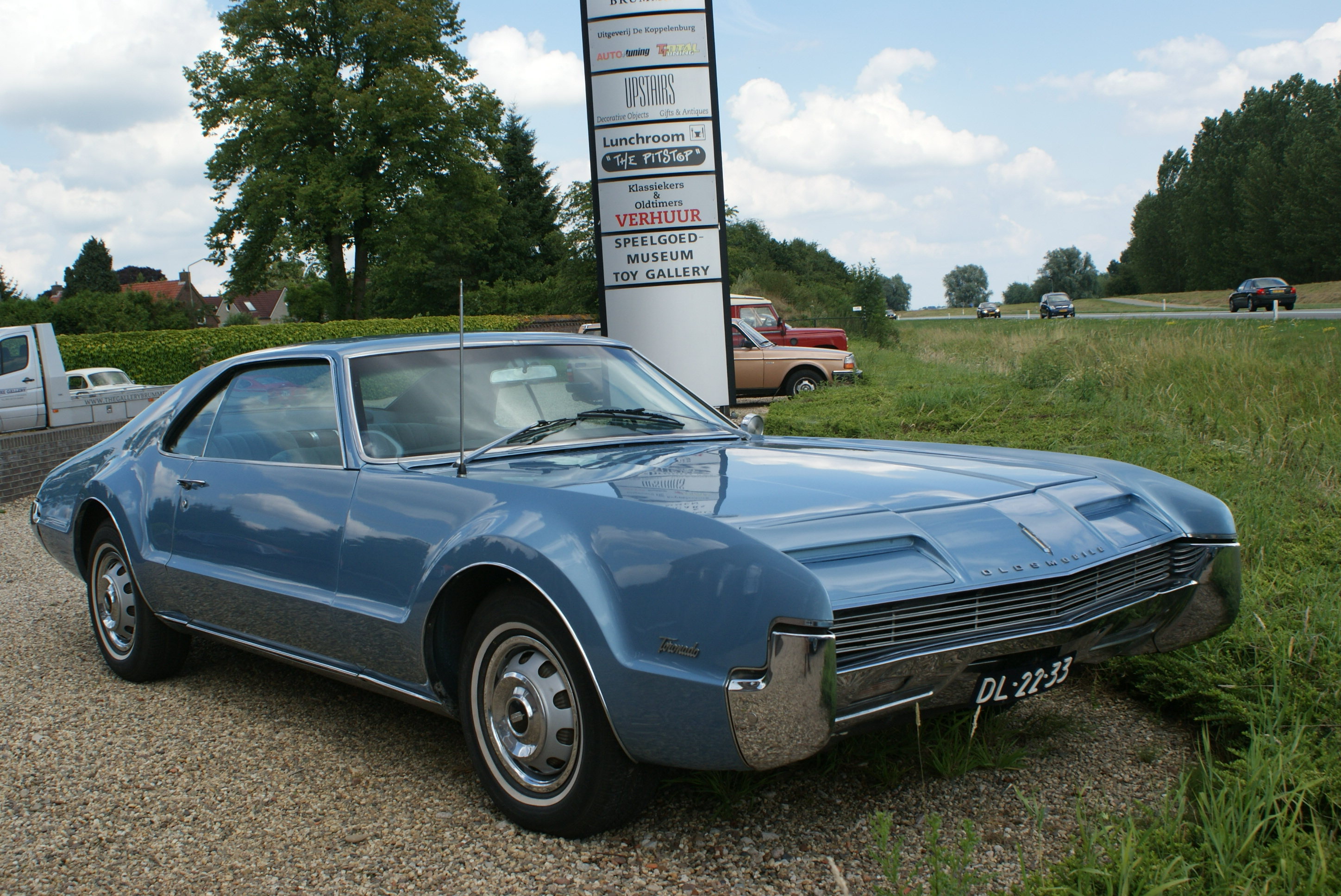 DL-22-33 The Gallery